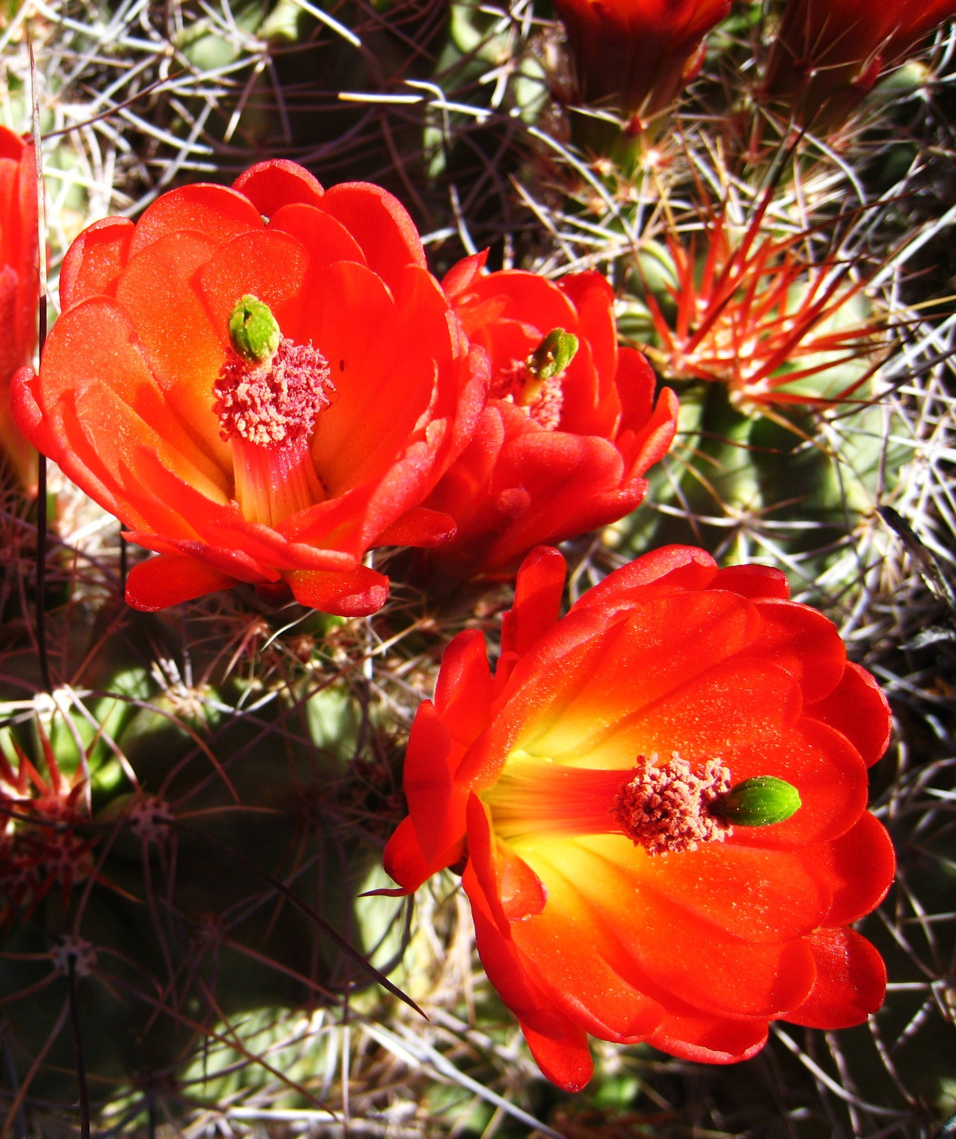 Hedgehog (claretcup) cactus Echinocereus triglochidiatus, photographed on the Lost Horse Mine Trail in Joshua Tree National Park, CA, USA.